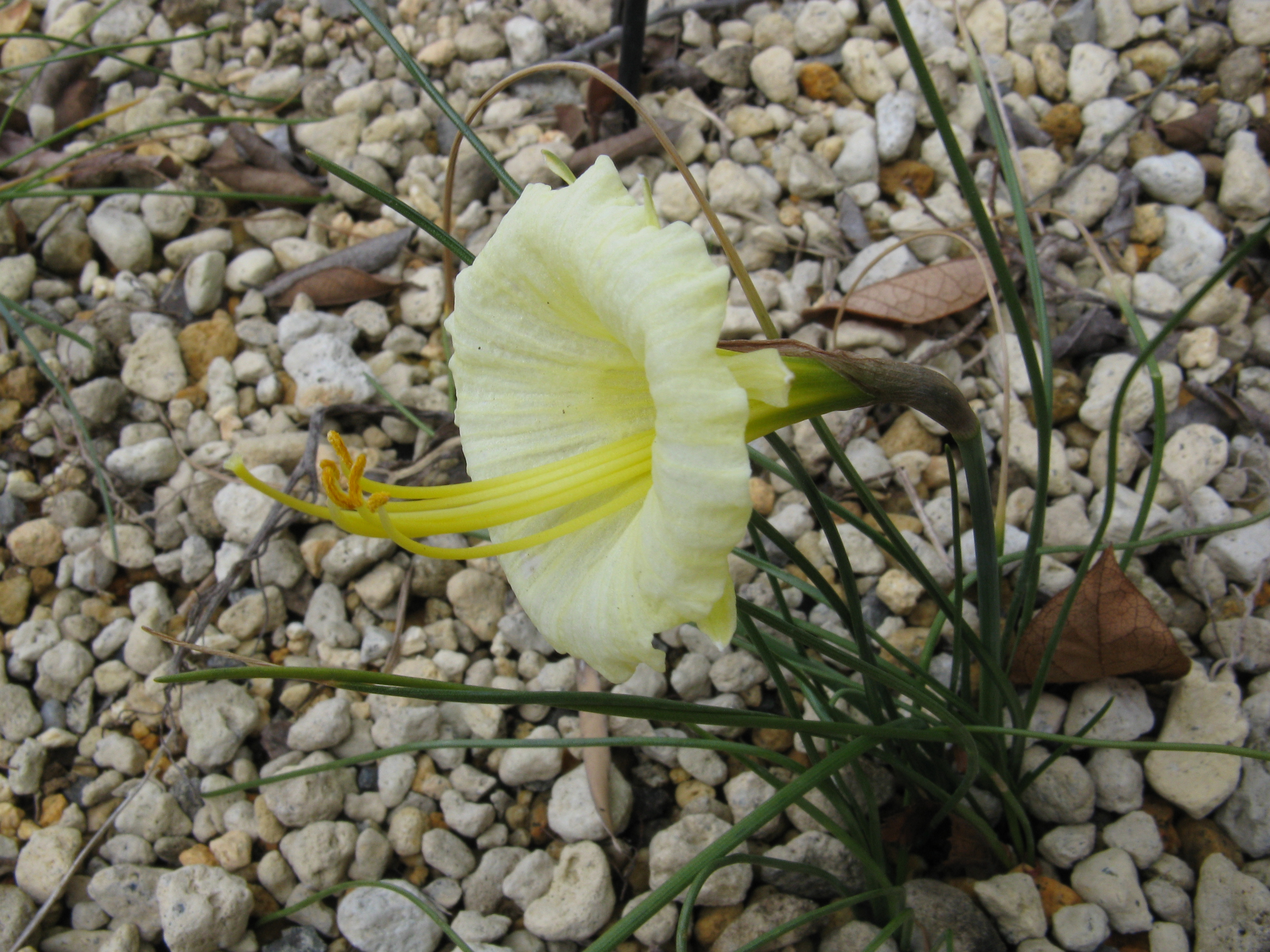 Narcissus romieuxii 'Julia Jane' Place:Osaka Prefectural Flower Garden,Osaka,Japan